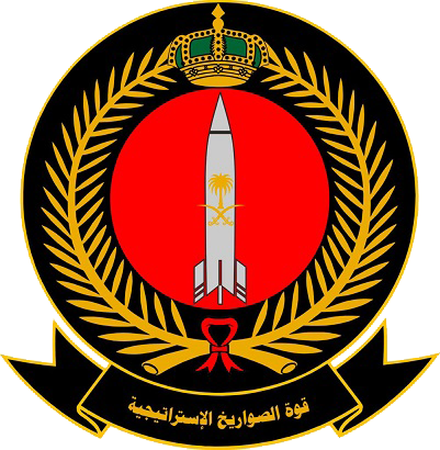 Royal Saudi Strategic Missile Force Emblem